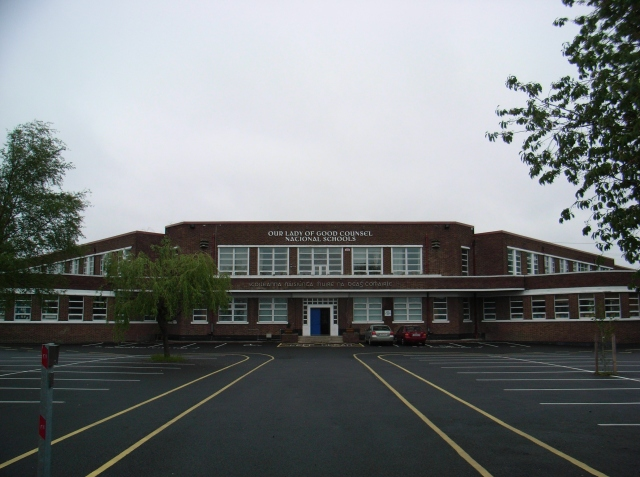 Our Lady of Good Counsel National School, Drimnagh, near to Dolphin's Barn, Crumlin, Harold's Cross, Inchicore and Islandbridge, Dublin, Ireland.